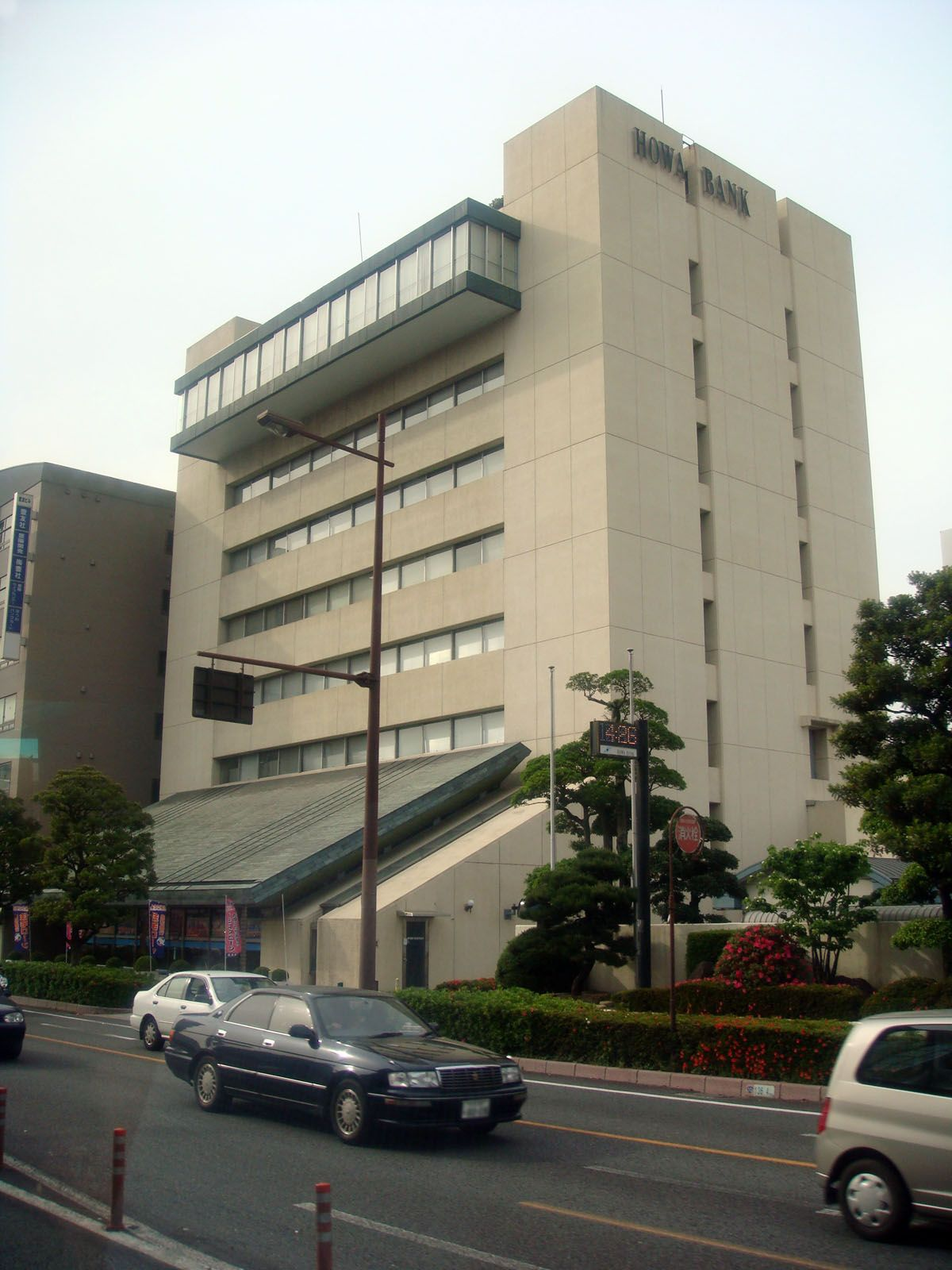 Howa Bank Headquarters, Oita City, Oita Pref., Japan / 豊和銀行本店（大分県大分市）